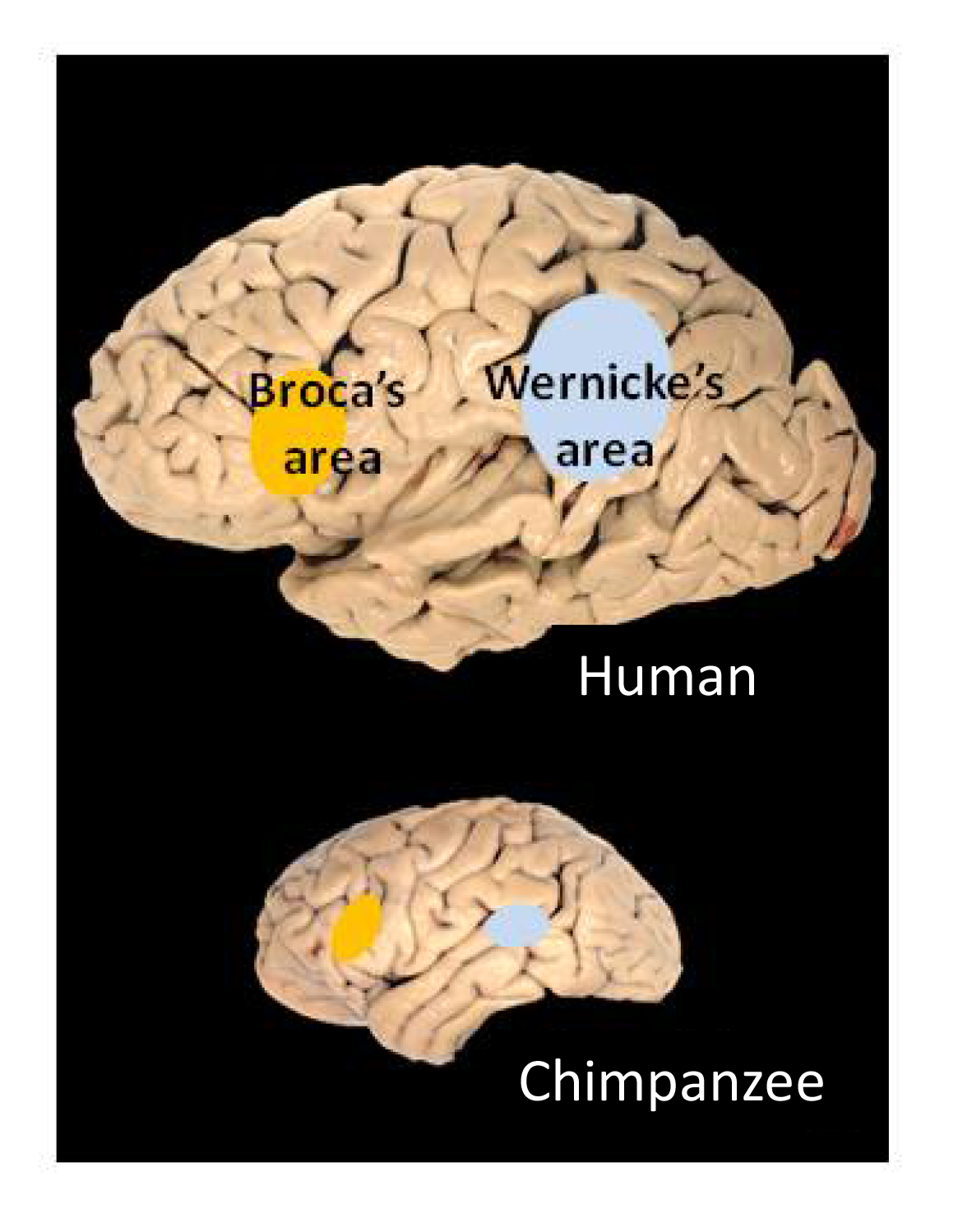 Human brain showing Broca's and Wernicke's areas (upper diagram) and areas of chimpanzee brain showing leftward enlargement (lower diagram).